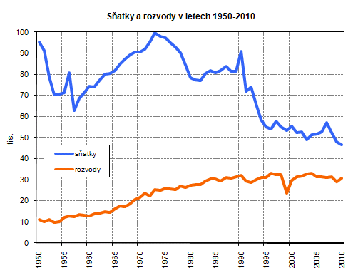 Graph of marriages and divorces in Czech republic (1950-2010).